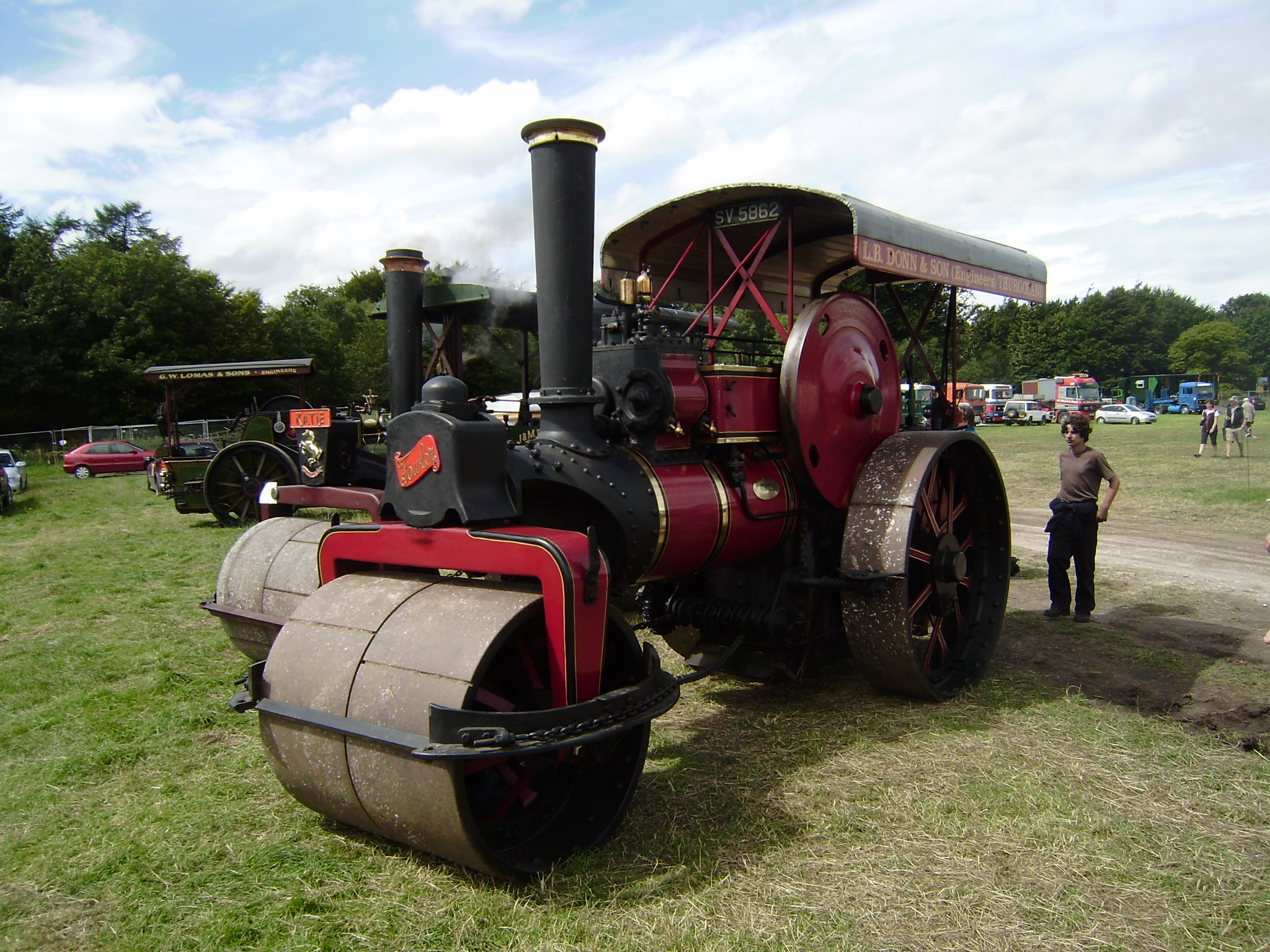 John Fowler & Co of Leeds steam roller s/n 15981 built 1923, exported to Sri Lanka on show at Cromford steam fair 2008